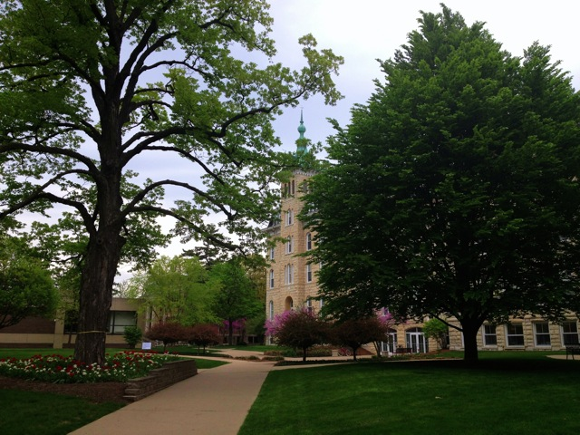 NCC Old Main in Spring 2013